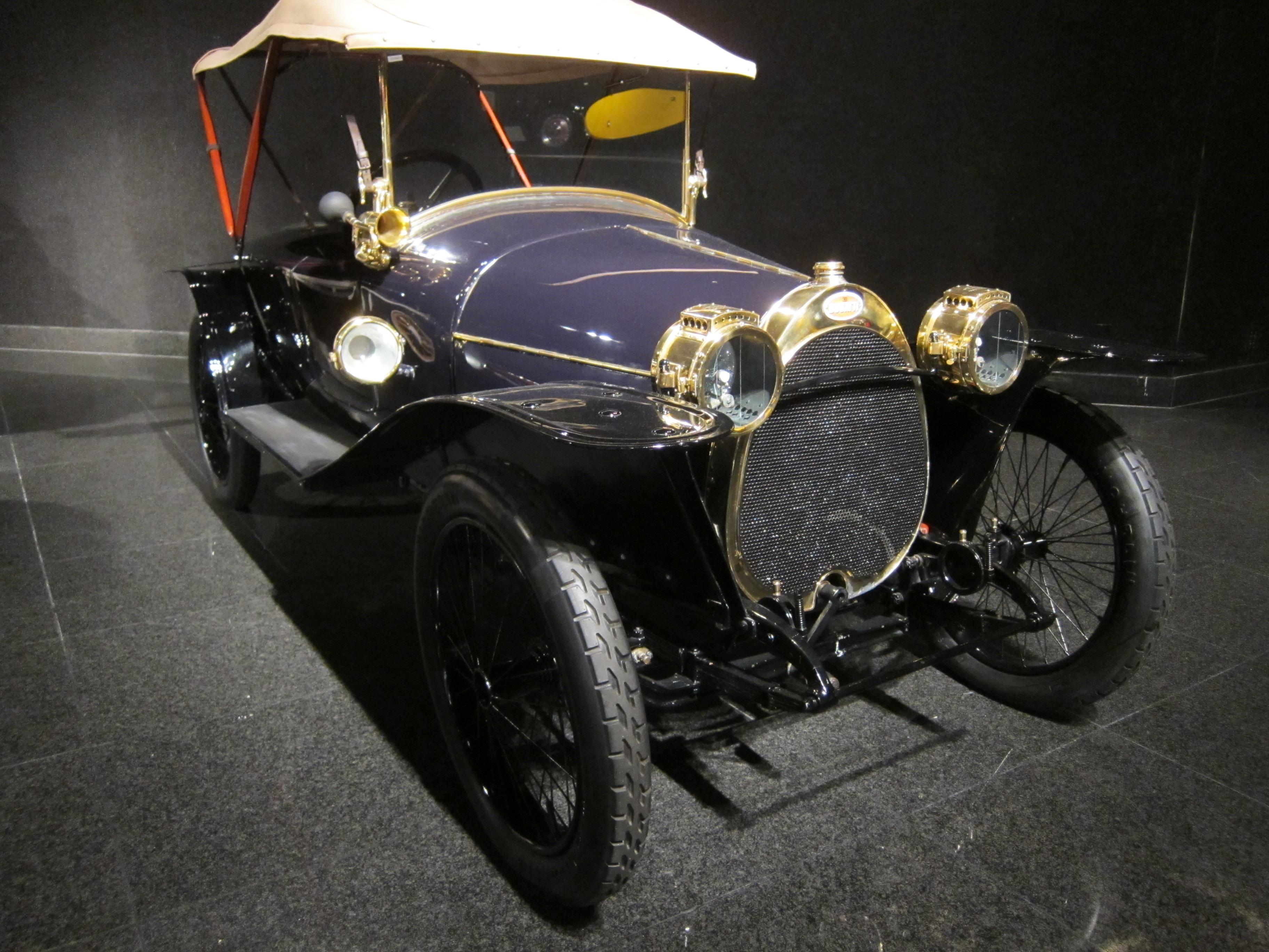 Awesome Behring collection of classic cars. Danville, CA